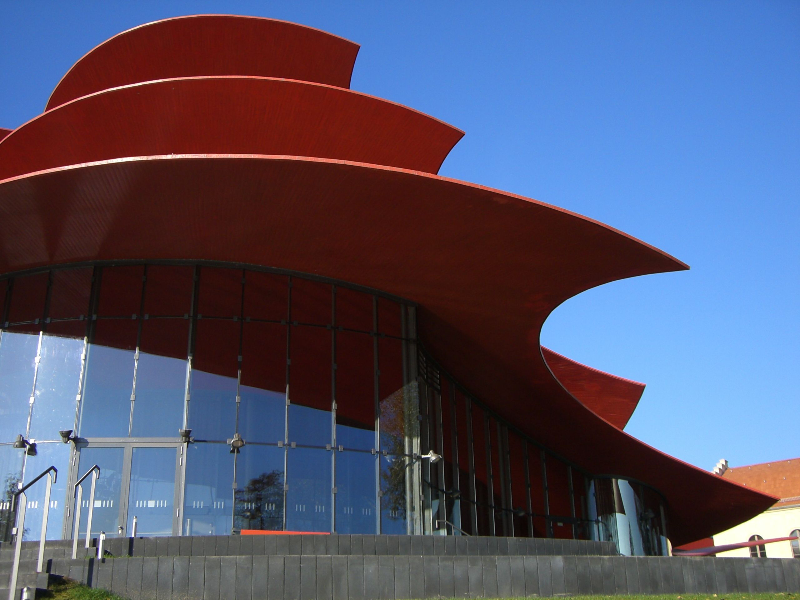 Hans Otto Theater Potsdam